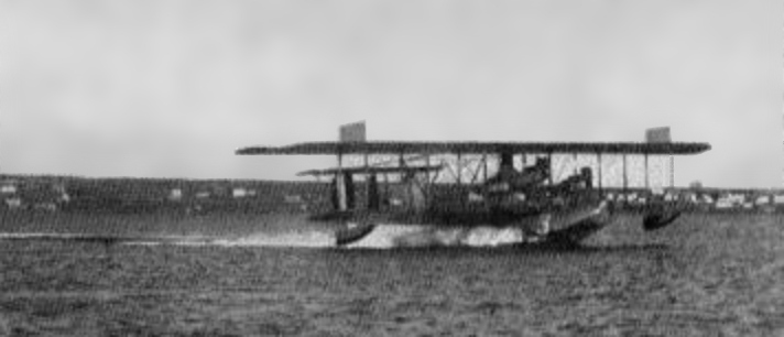 The NC-3 Flying Boat taxis before takeoff in Trepassey Bay, before the first transatlantic flying expedition. Scanned from from Leslie's Magazine, June 7, 1919